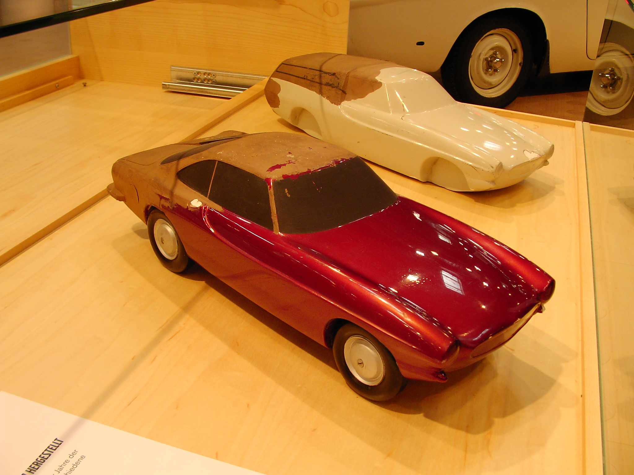 Plastermodels of volvo P1800 in 1:10 scale used by Volvo design department in 1957 based on Pelle Petterson drawings and Frua prototyping. Later used for considering design updates (estate)